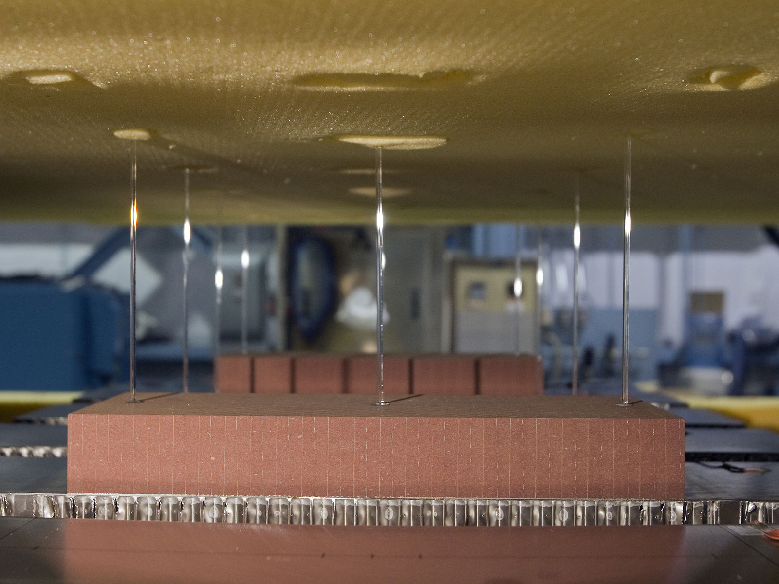 Testing an AVCOAT specimen in an environmental chamber at NASA Langley.